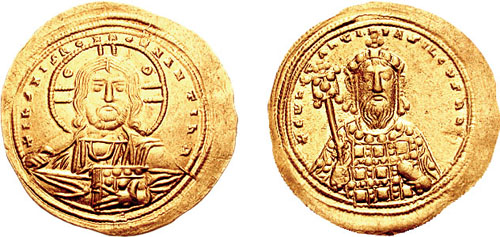 Constantine VIII AV Histamenon Nomisma. Constantinople mint. + IhS XIS REX REGNANTInM (Jesus Christ, King Regnant), bust of Christ facing, holding Gospels + CÔnSTAnTIn bASILEUS ROM[AION] (Constantine emperor of the Romans), crowned bust of Constantine facing, holding labarum with pellet on shaft and akakia. DOC III 1; SB 1815. See also same coin, other pic